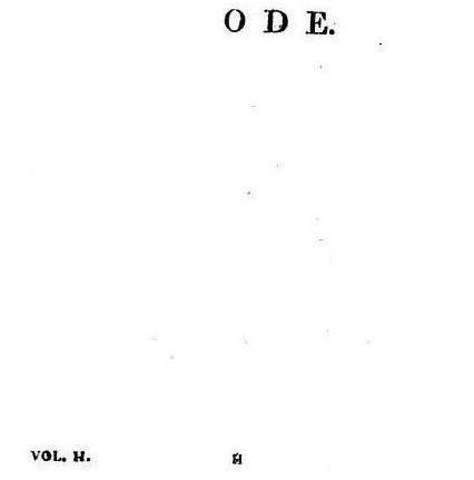 Googlebooks. Poem's title page from volume two with epigraph, cropped and joined onto one image by User:Ottava Rima.